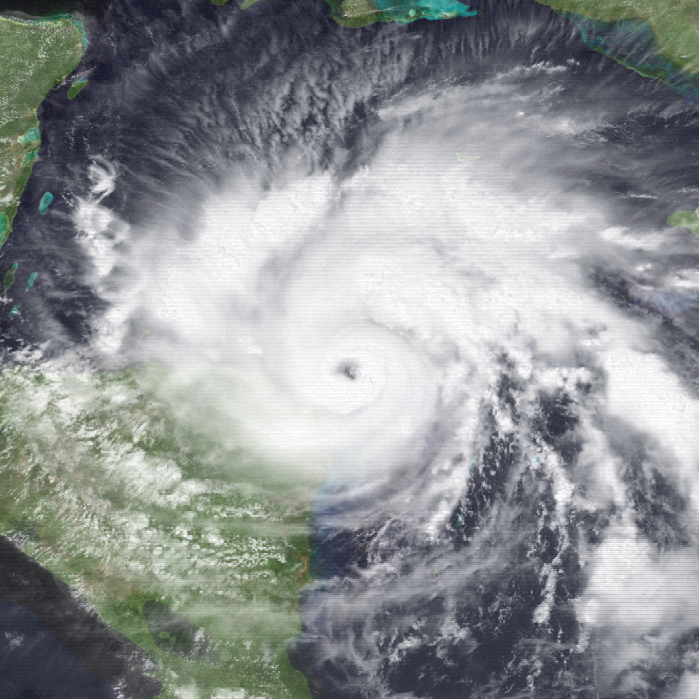 Hurricane Greta near peak intensity just northeast of Honduras on September 17, 1978